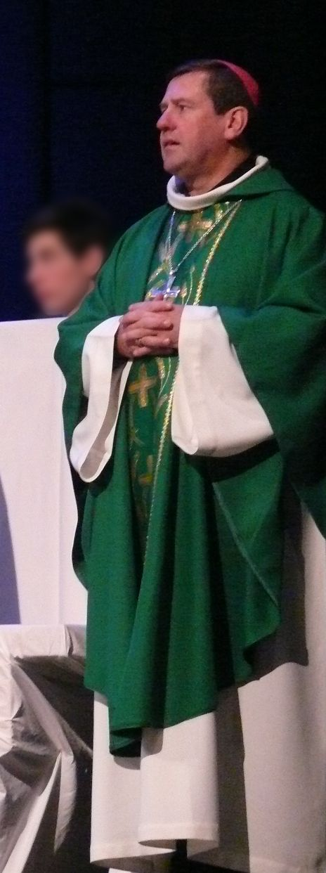 The bishop Jean-Marie Le Vert of Quimper at Ecclesia Campus 2012 in Rennes (Ille-et-Vilaine, Bretagne, France).